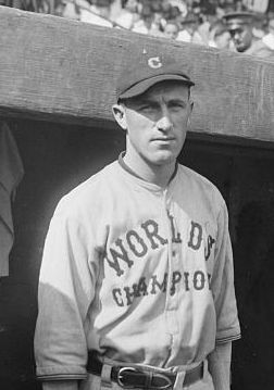 Bill Wambsganss from the George Grantham Bain Collection of the Library of Congress Prints and Photographs Division